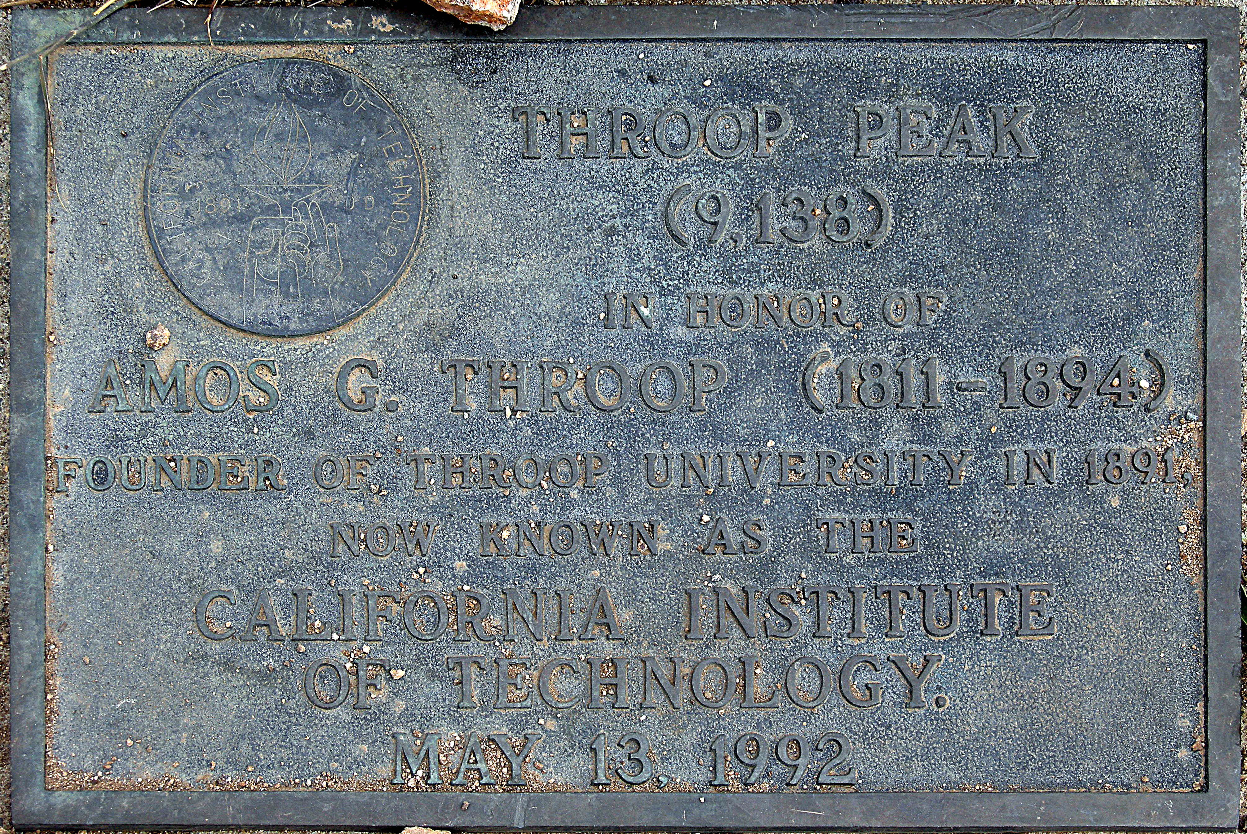 Memorial plaque for Amos Throop on Throop Peak in the San Gabriel Mountains